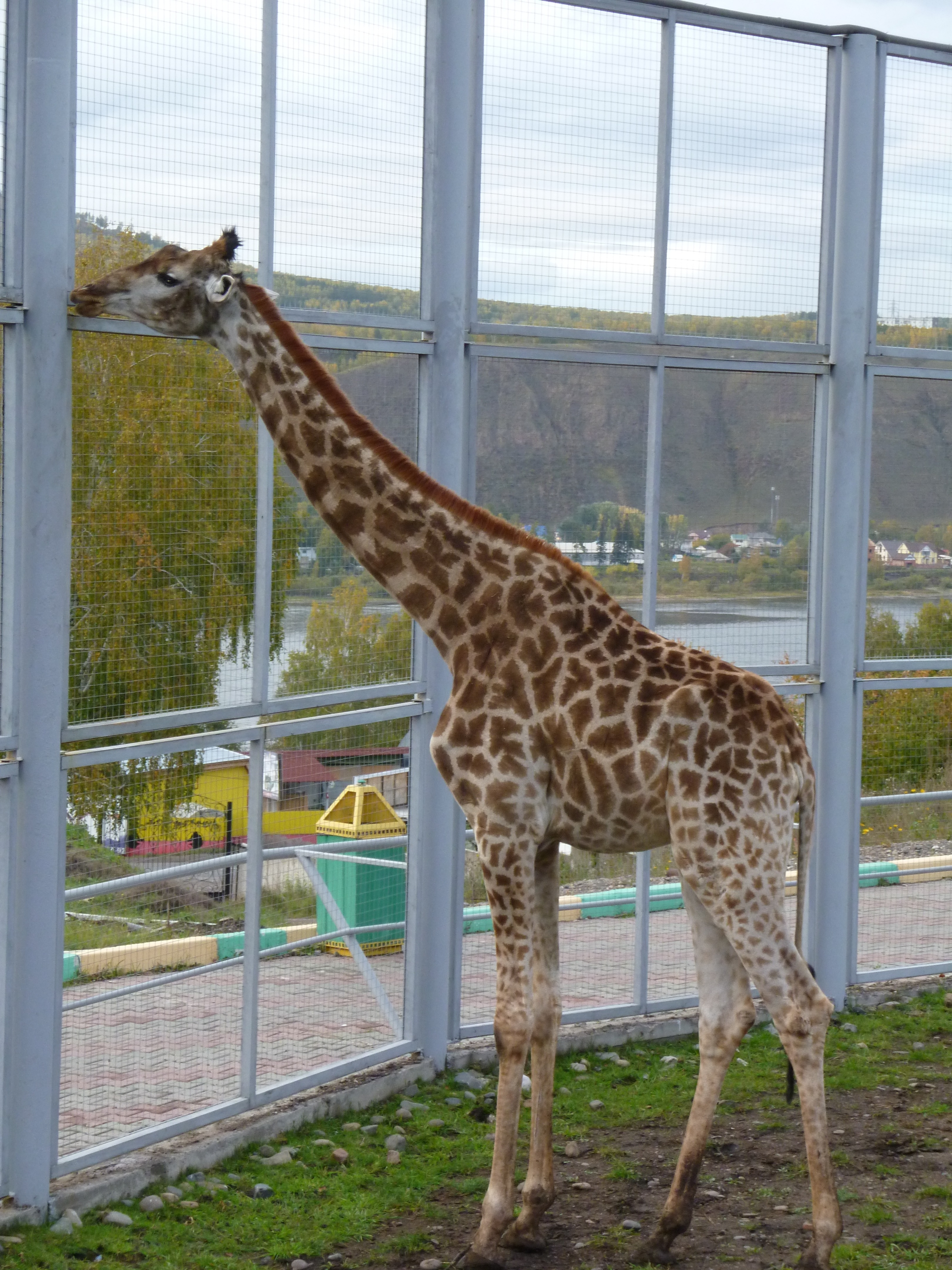 Zoo in Krasnojarsk